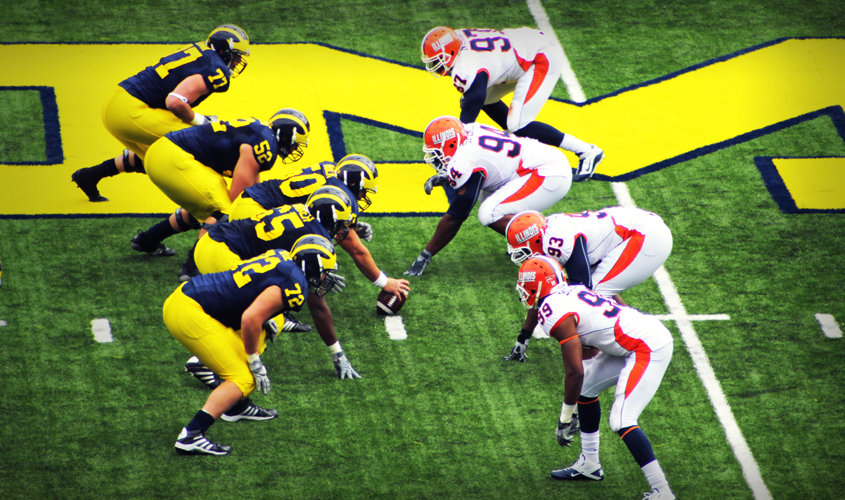 Michigan vs. Illinois, 2010 (at Ann Arbor)